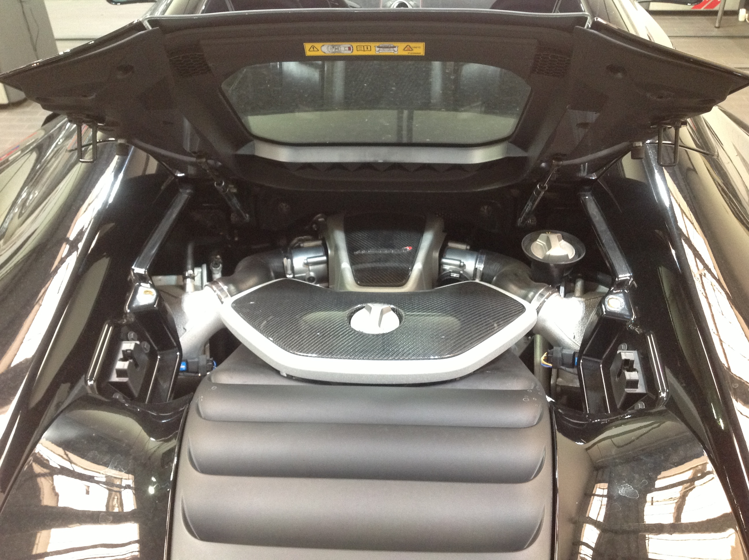 open bonnet of McLaren 650S